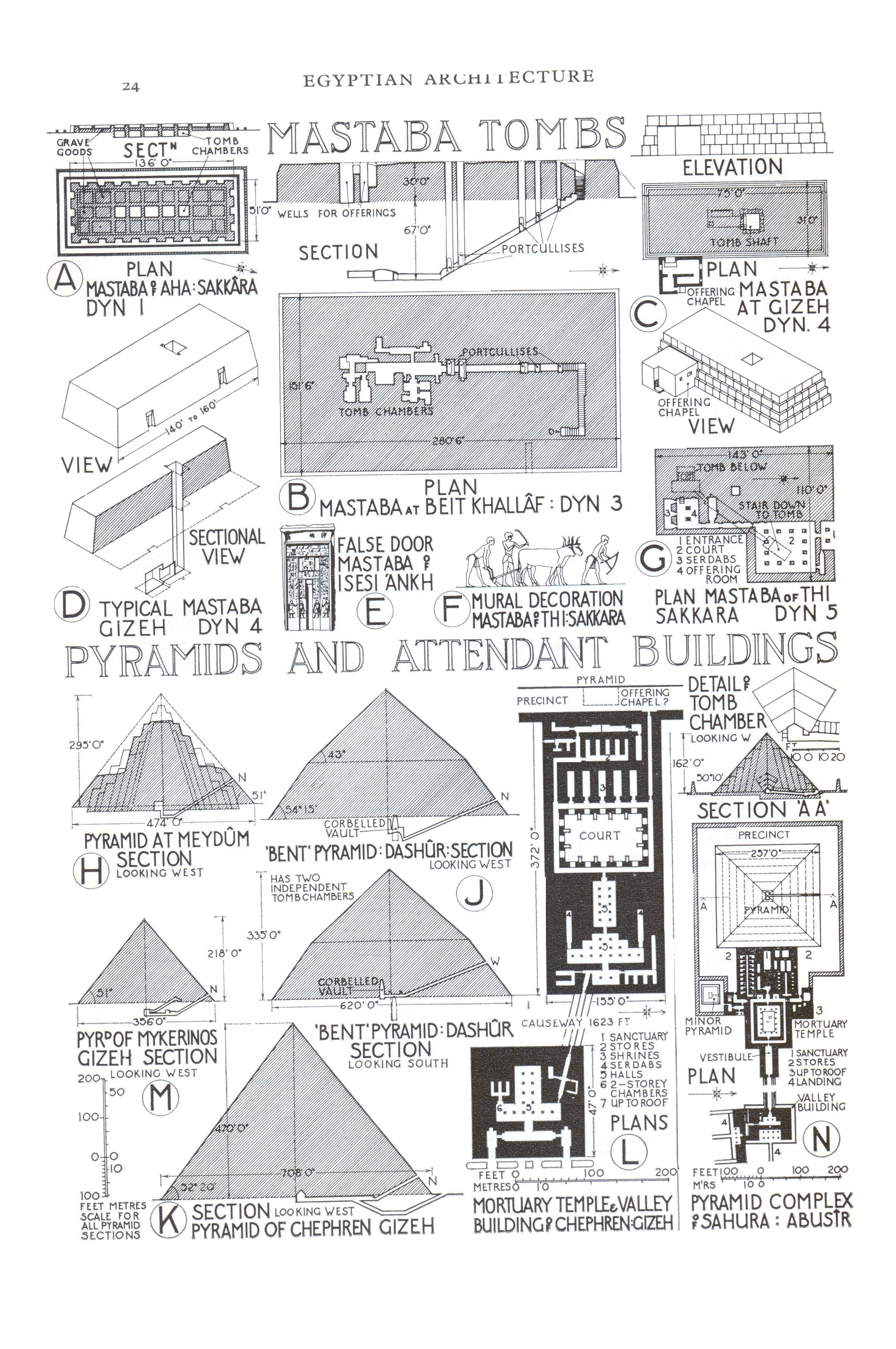 Mastaba Tombs, Egyptian Architecture, History of Architecture (Fletcher pg 24